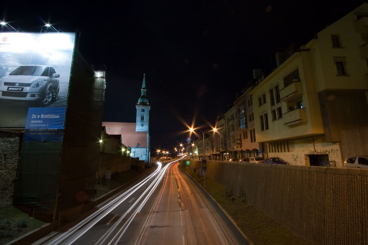 Night shot of Bratislava, Slovakia.